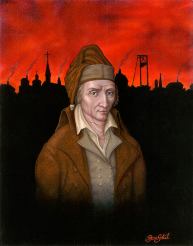 Pierre-Nicolas-Louis Leroy (1743-1795) of the French Revolutionary Tribunal ©2008 by Bobby BeauSoleil Prismacolor and oil on Bristol, 11 x 14 inches This painting is from the collection of William Leroy N.Y.C.